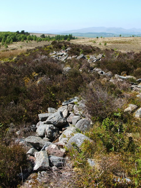 The Lang Cairn This is a view along the length of the Lang Cairn, which is the best-preserved of several long cairns of 'Clyde' type that are found north of the Clyde estuary; these have a wider end where the stones of a concave facade enclosing a forecourt area: see 1866729 and 1081513. For a detailed archaeological description, see the WoSAS link in the end-note. This image was taken from near the wider (eastern) end. The cairn contained a long burial chamber that was divided up by stone slabs into smaller compartments. At the time of writing, the site had been examined, but not excavated. From a distance, it appears only as a long purple mound (thanks to its covering of heather). This chambered cairn dates from the Neolithic period (4000-2500BC). It is given statutory protection under the Ancient Monuments and Archaeological Areas Act 1979. See also 1081526 and 1081539. For other Neolithic cairns near this location, see 942422 and 880019.